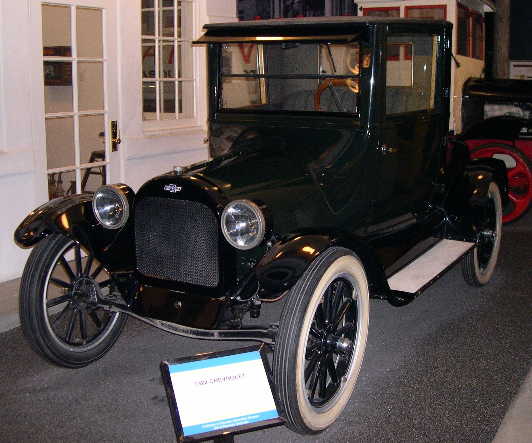 1922 Chevrolet 490